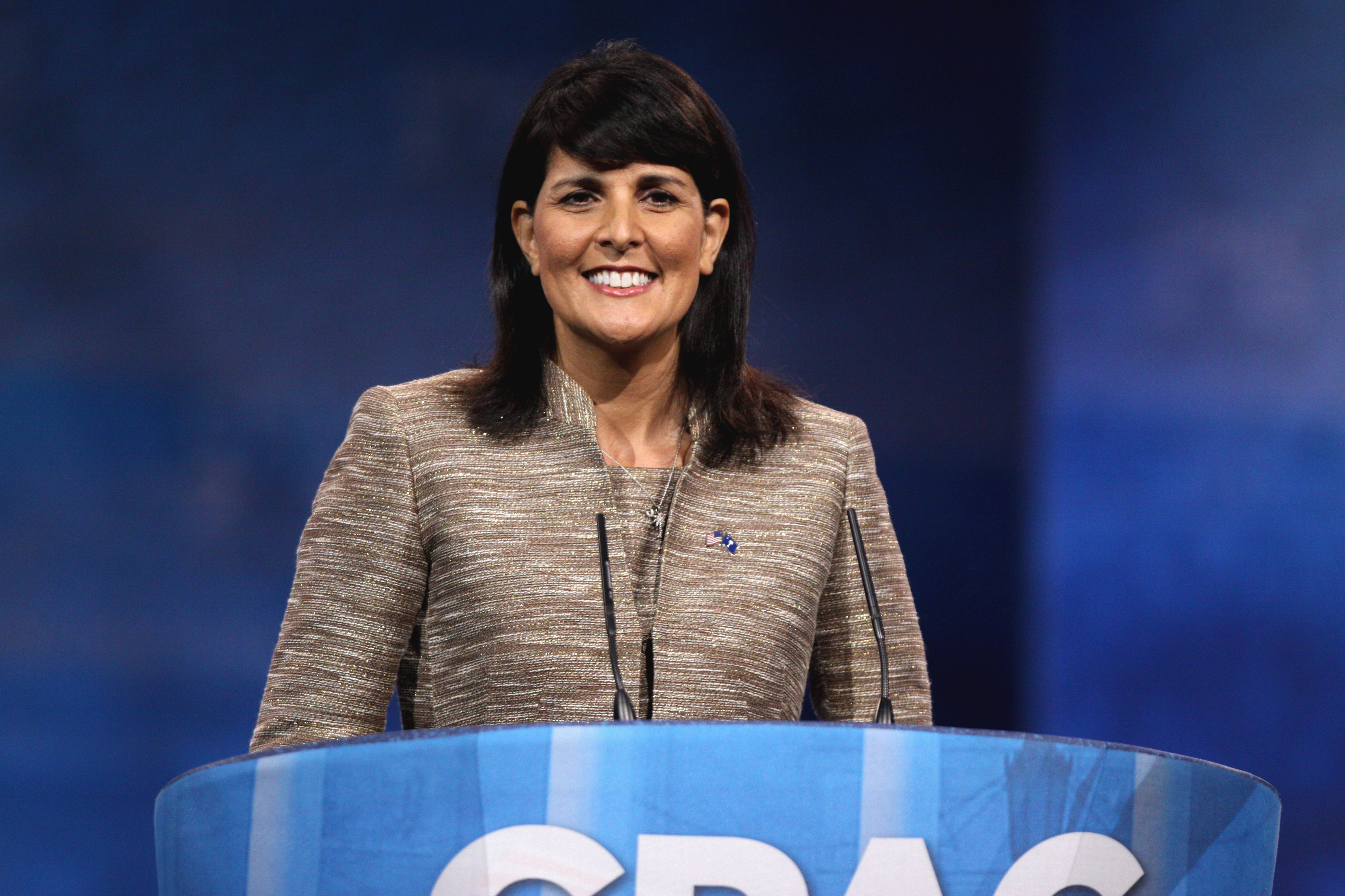 Nikki Haley speaking at the 2013 CPAC in National Harbor, Maryland